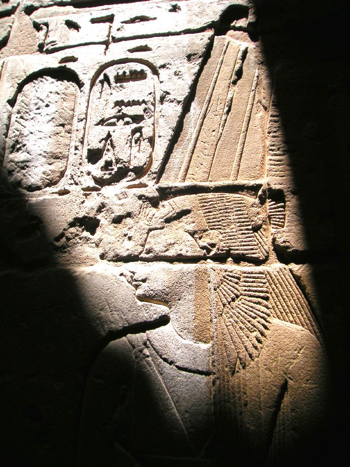 Relief representing god's Wife of Amun Amenirdis. The cartouche erased is the one of her father Kashta - Medinet Habu - 25th dynasty of Egypt